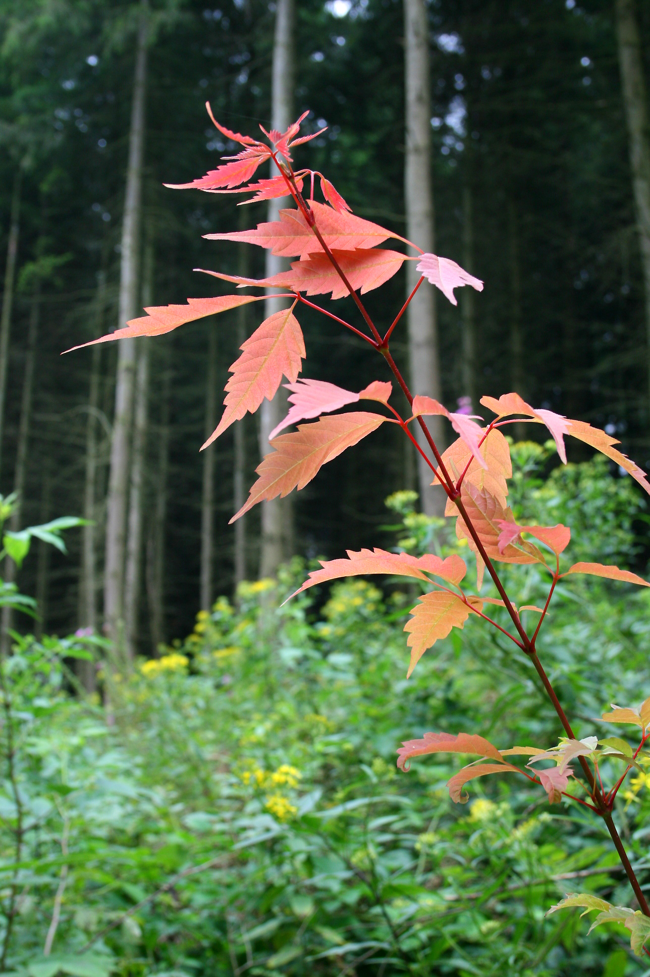 Acer cissifolium (Vine-leafed Maple, Vineleaf Maple vigne) (Acer cissifolium) Precise location : Arboretum Robert Lenoir - Rendeux (Belgium). Walon: Plane a fouyes di vigne (Acer cissifolium) Place rècta : Arboretum Robert Lenoir - Rindeu